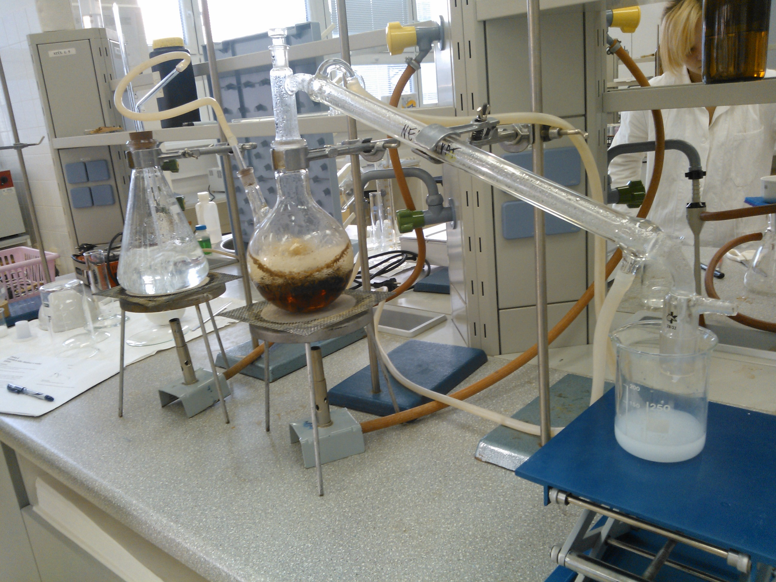 Extraction of essential oils of Syzygium aromaticum (spice) by water vapor distillation. University of South Bohemia, Budweis (České Budějovice), 2012.